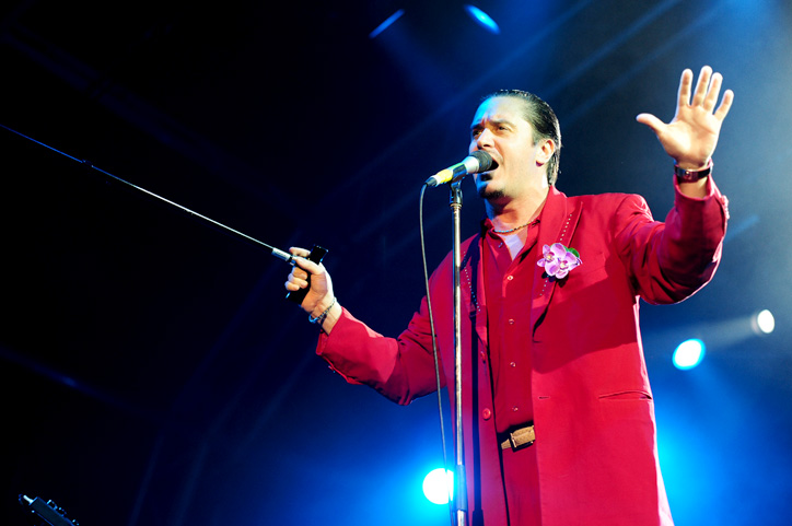 Soundwave Festival 2010